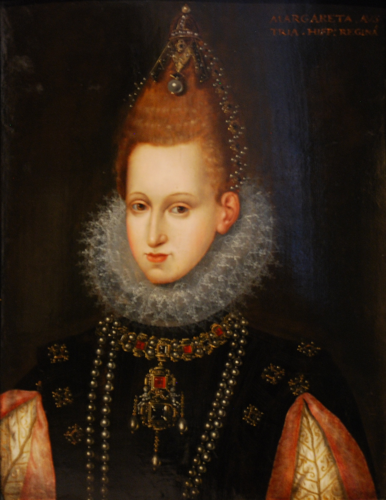 Portrait of Margaret of Austria, Queen of Spain (1599-1611) by Joseph Heintz the Elder.